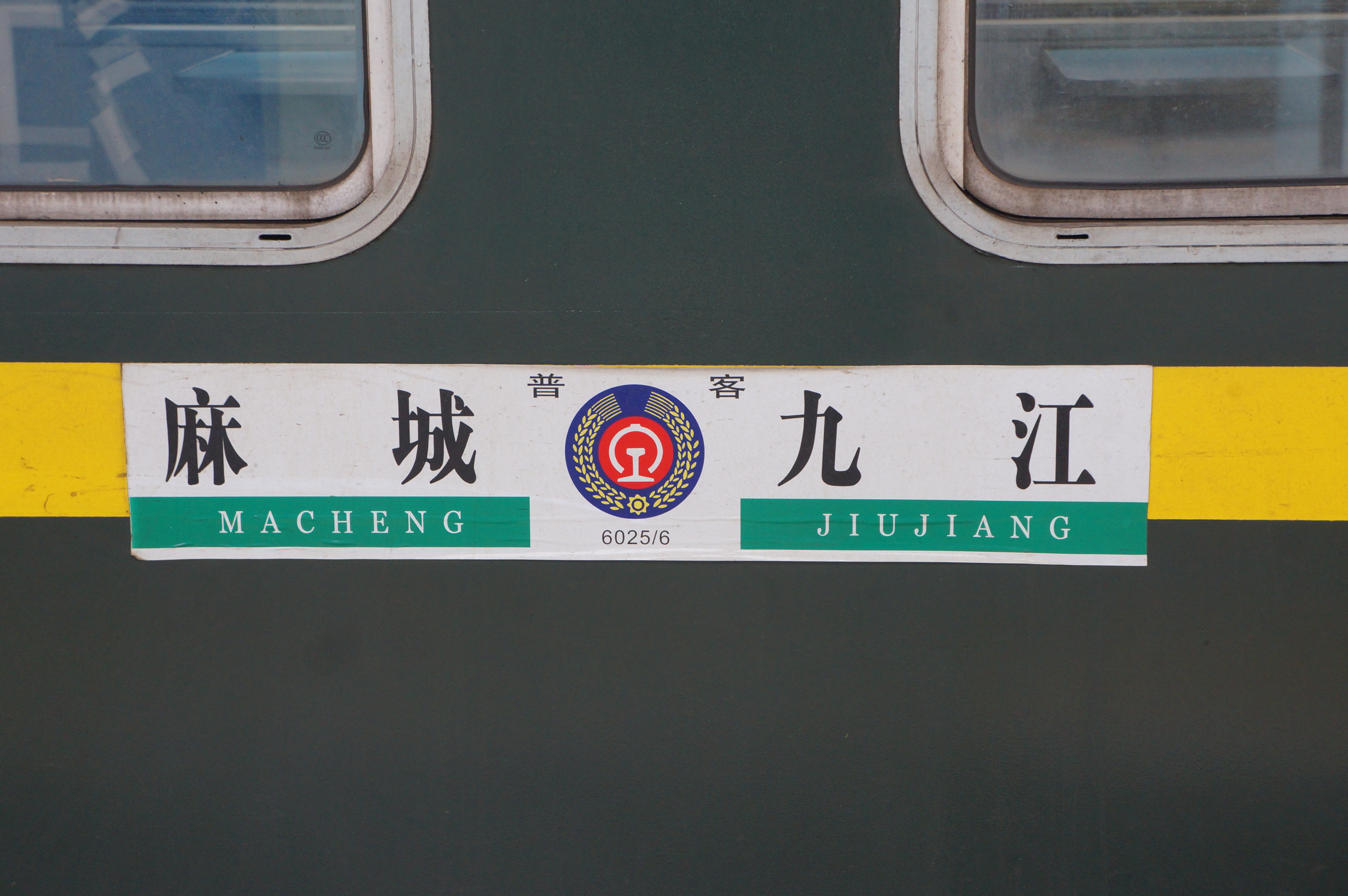 6025-6026 between Machang and Jiujiang